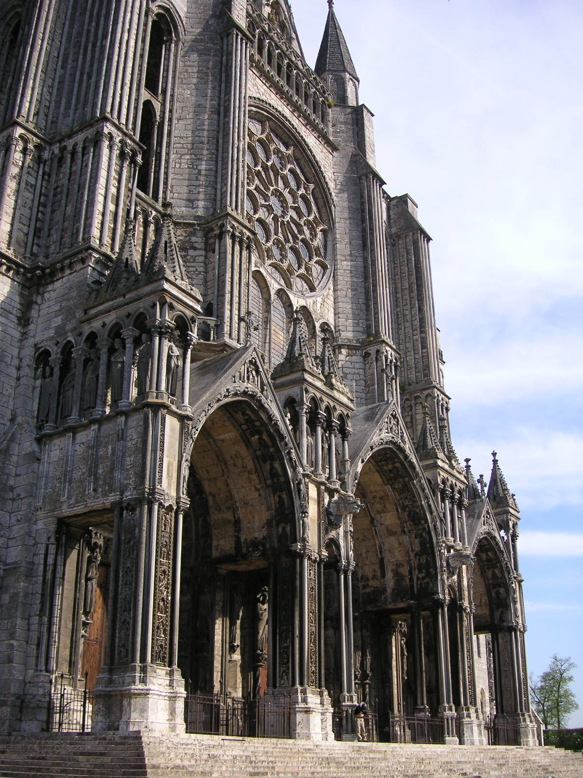 Chartres Cathedral, Facade of South transept